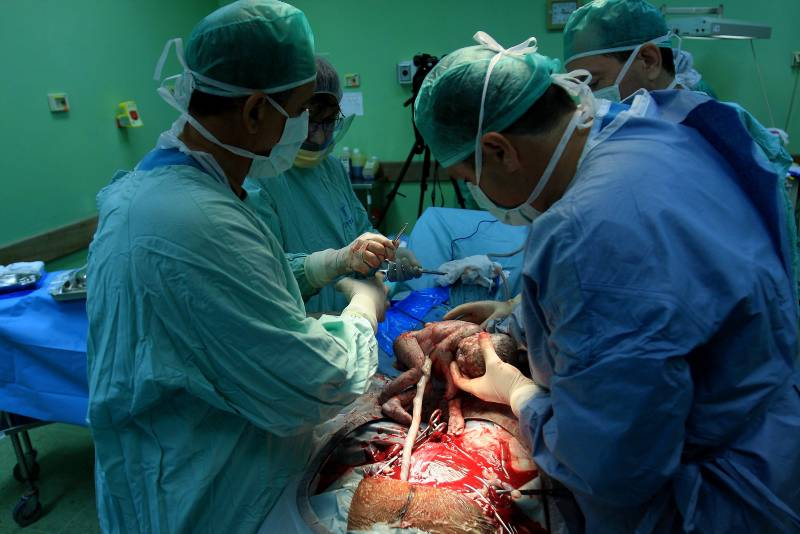 Haula Fadlallah, a 32-year-old Palestinian woman from the Gaza Strip undergoing a Caesarean section at the Barzilai medical center in the Israeli city of Ashkelon. She gave birth to quadruplets. A month earlier, Fadlallah, while waiting at Erez Crossing between the Gaza Strip and Israel, went into labor and was rushed to Barzilai hospital, where she was kept under medical care until after the birth. She gave birth to healthy two boys and two girls with the help of seven Israeli medical professionals.